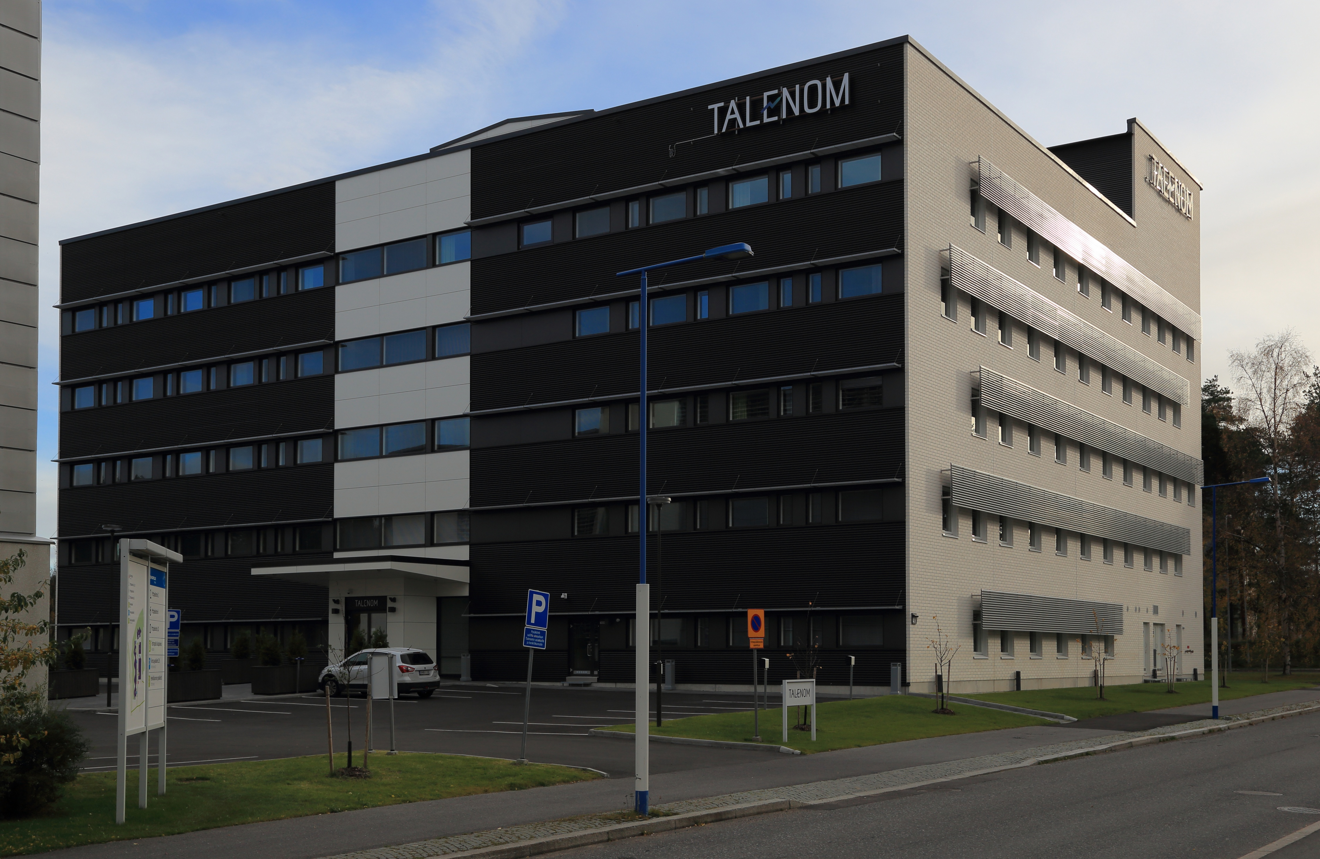 The Talenom office building in Peltola, Oulu.